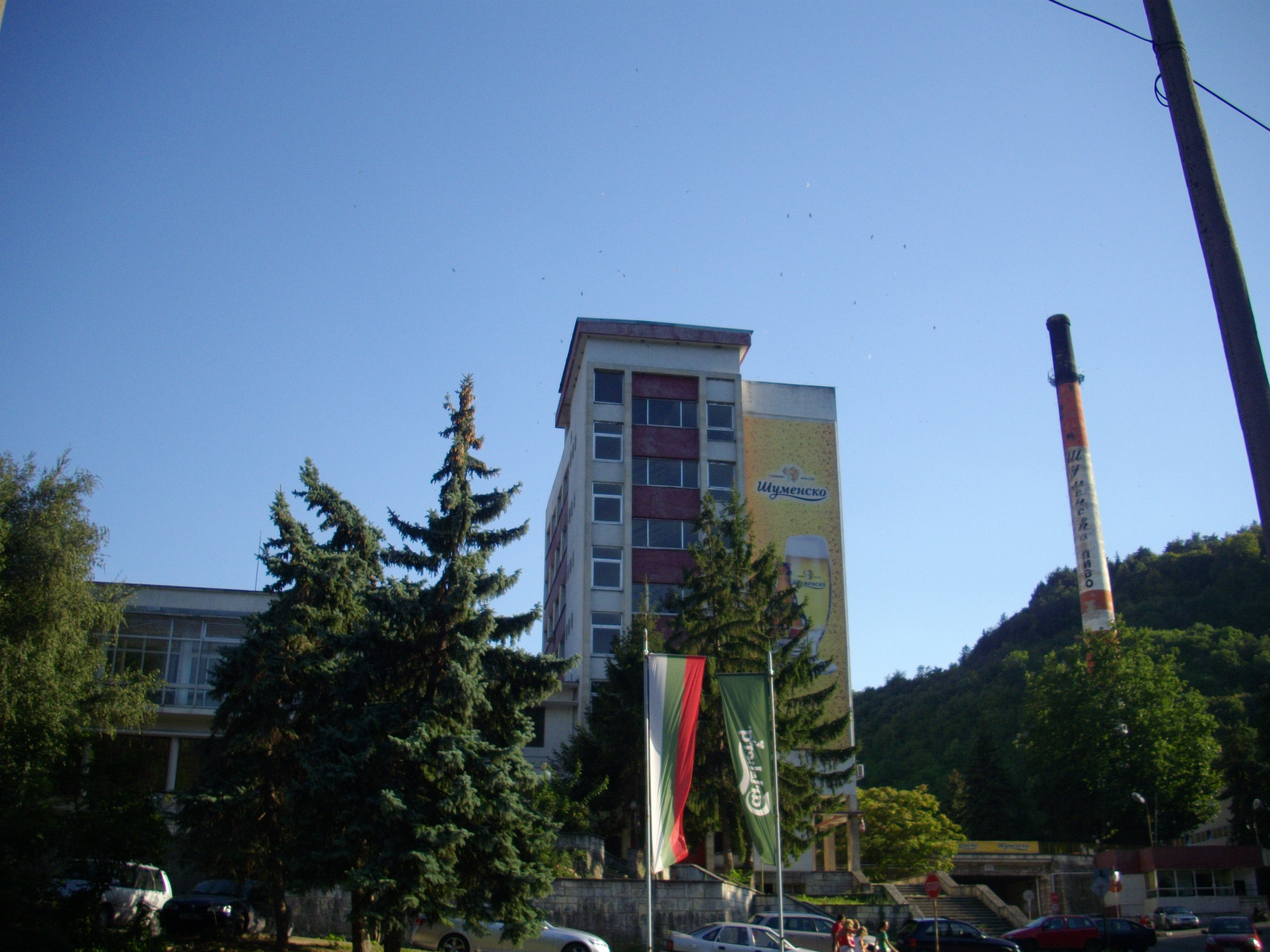 „Шуменско пиво“